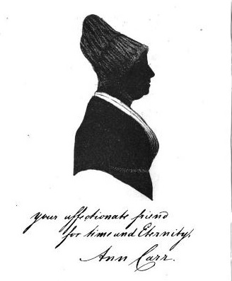 Ann Carr (evangelist) of Leeds